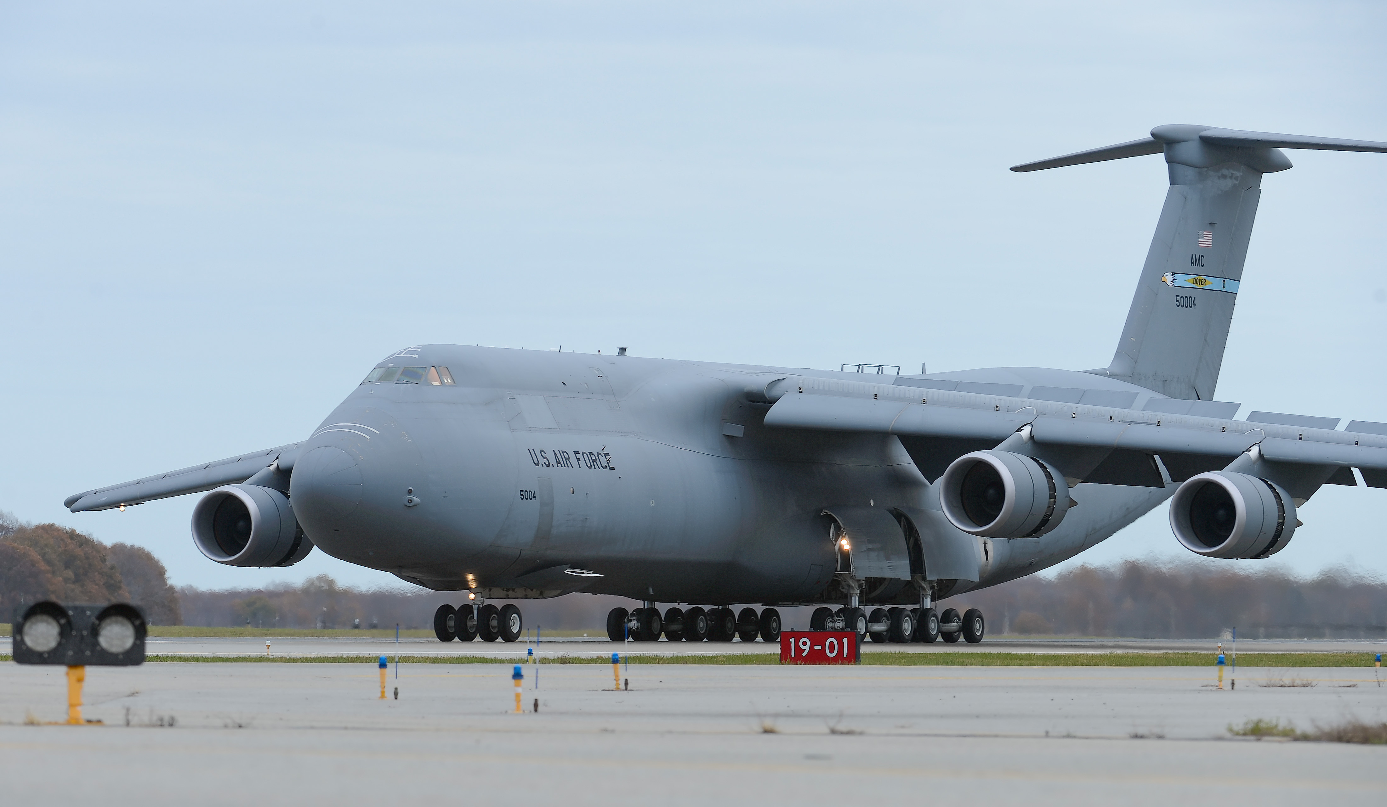 C-5M Super Galaxy, serial No. 85-0004, rolls down runway 32 after landing Nov. 21, 2013, at Dover Air Force Base, Del., to complete its delivery flight after upgrade to a Super Galaxy by Lockheed Martin Corp. in Marietta, Ga. 85-0004, is the 13th C-5M model to be delivered to the USAF and joins the 436th Airlift Wing, currently the sole front-line transport Wing to operate the C-5M. (U.S. Air Force photo/Greg L. Davis)